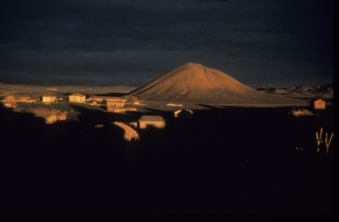 Photograph of Tumulus MM (The Great Tumulus) at Gordion, Turkey, as seen from the ancient city mound at sunset. This huge burial mound, constructed in the second half of the eighth century BC, covered the tomb of the Phrygian King Midas or his father. Copyright, Elizabeth Simpson, 1997